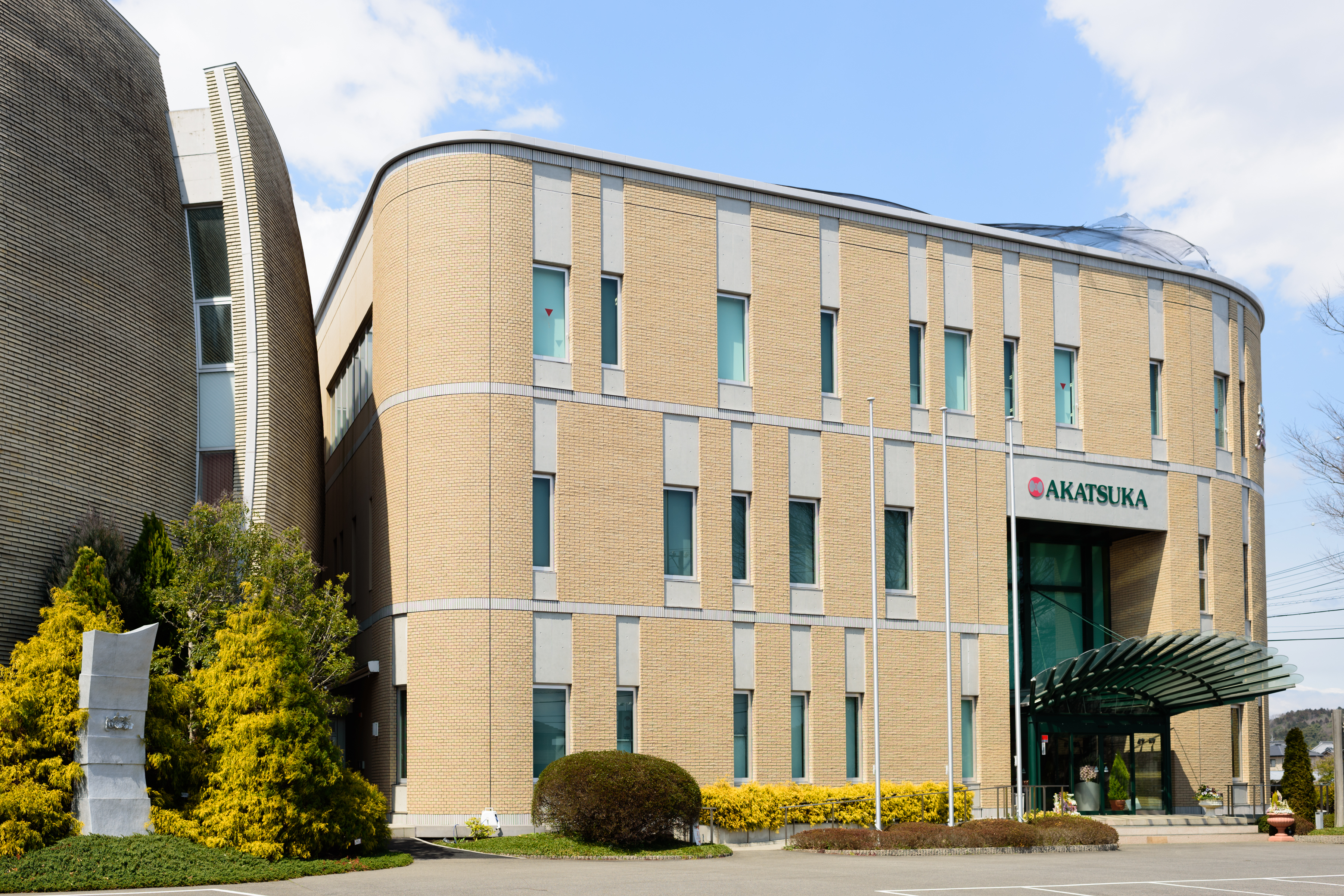 Head Office of AKATSUKA FFC, Takanoo-cho, Tsu, Mie